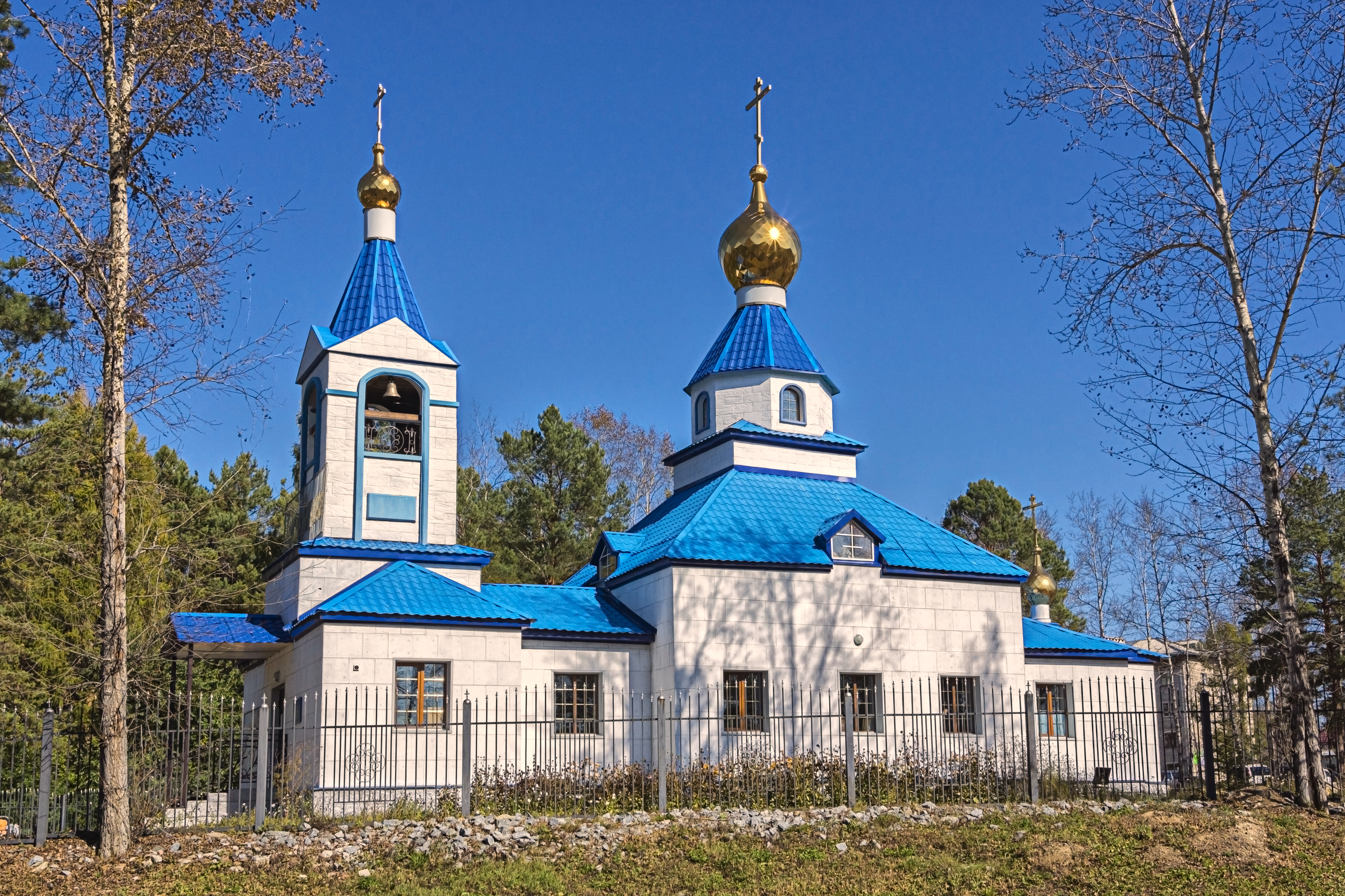 Temple in honor of the Kazan Icon of the Mother of God, Tsiolkovsky Amur region